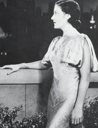 Dorothy Tree in East of Fifth Avenue